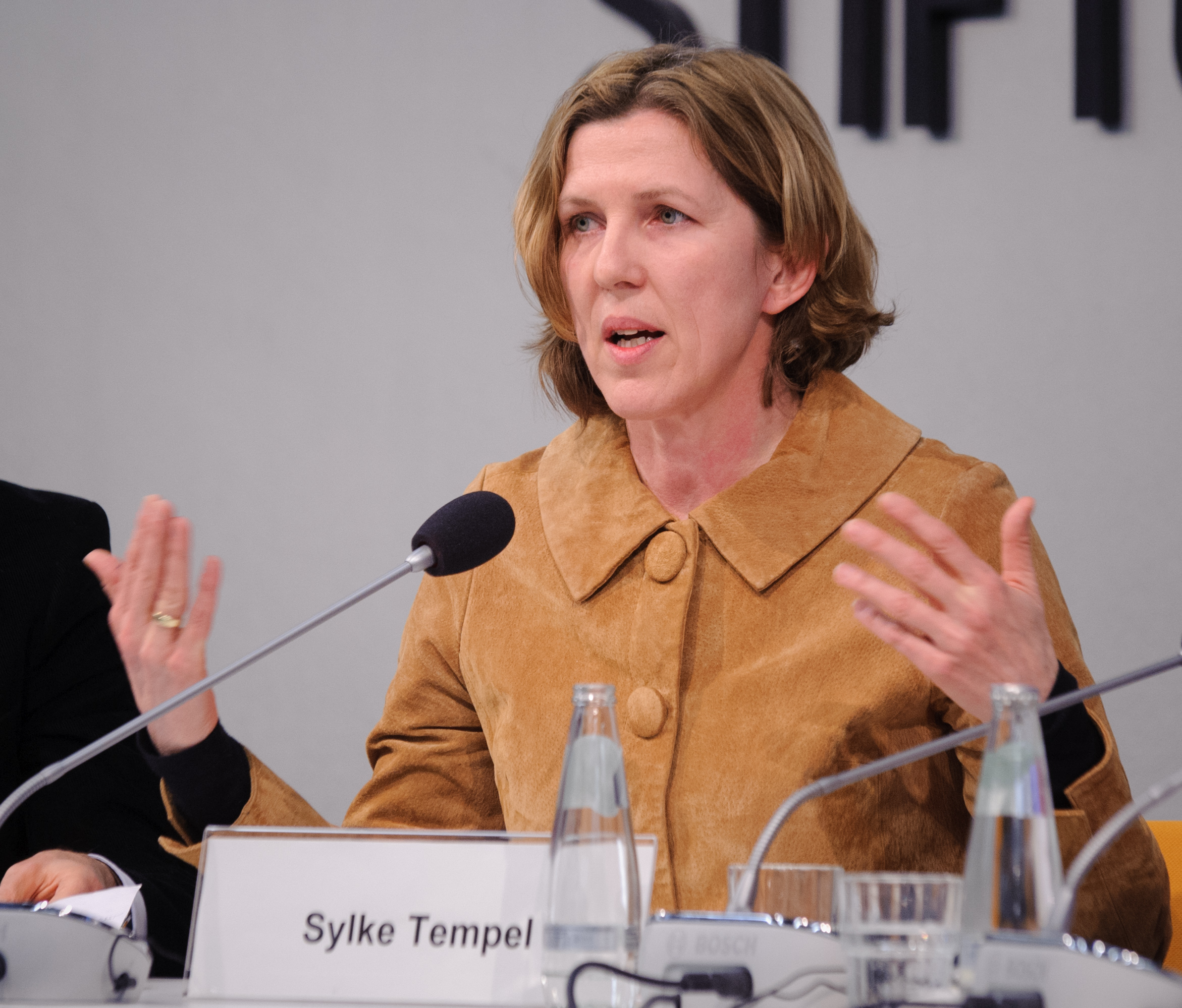 Sylke Tempel (Journalistin, Hg. Internationale Politik, Berlin)